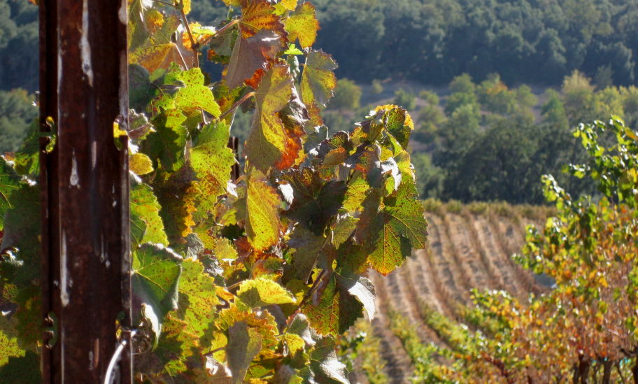 Image of Tablas Creek Vineyards